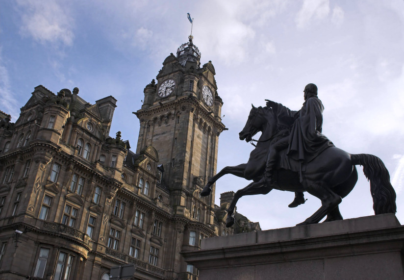 A picture of the statue of the Duke of Wellington located in Edinburgh, Scotland, UK. H M General Register House, home to the National Archives of Scotland is to the photographers back, and the building in the background is the Balmoral Hotel. This photo was taken by the submitter on September 13th, 2005.